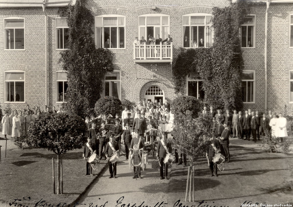 I 3 regimental band at the Garphyttan sanatorium, Örebro County, Sweden